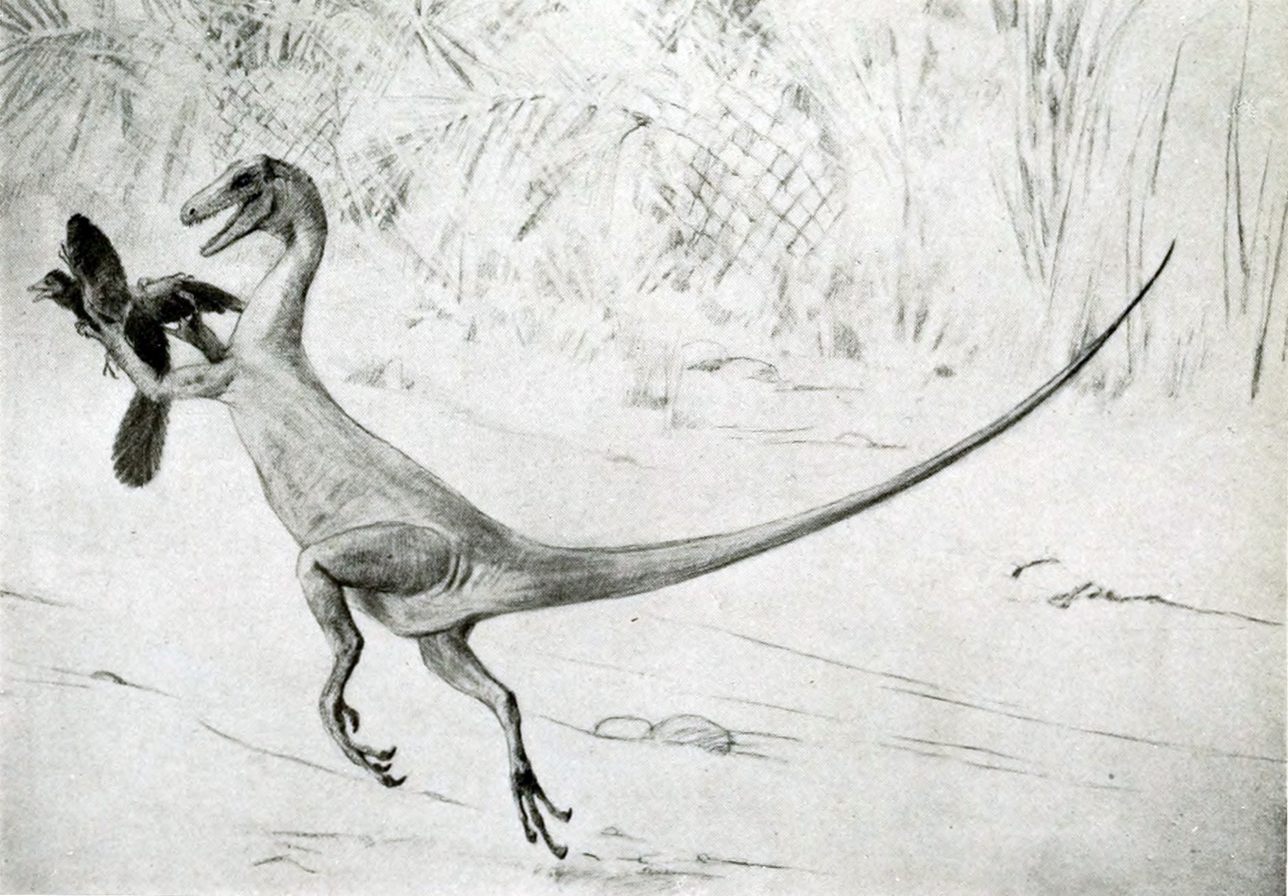 Title: The American Museum journal Year: c1900-(1918) (c190s) Authors: American Museum of Natural History Subjects: Natural history Publisher: New York : American Museum of Natural History Text Appearing Before Image: Allosaurus feeding on the remains of an amphibious dinosaur.— Restoration of a carnivorous dinosaur from Wyoming representative of the Age of Reptiles. The artist has shown the ferocious reptilian head, with huge mouth bristling with sabre-like teeth, the large birdlike hind limbs, the tail used in balancing and the sharp talons of the feet. Although this conception of the animal has l)een elaborated from detailed anatomical studies, the finished picture has no suggestion of the laboratory but instead the animal seems alive and in a natural habitat Text Appearing After Image: Property of the Museum Ornitholestes — Restoration of a small carnivorous dinosaur of the Age of Reptiles, from Wyom- ing. This dinosaur is a biped like Allosaxirus but its proportions are light and graceful as compared with the larger members of the group